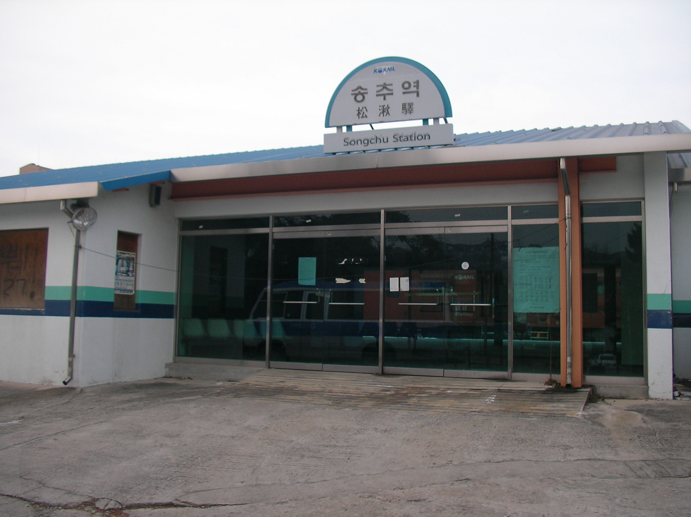 Songchu Station in Seoul Gyowoi Line